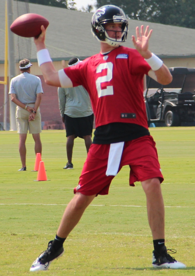 Matt Ryan at Falcons training camp, 2013